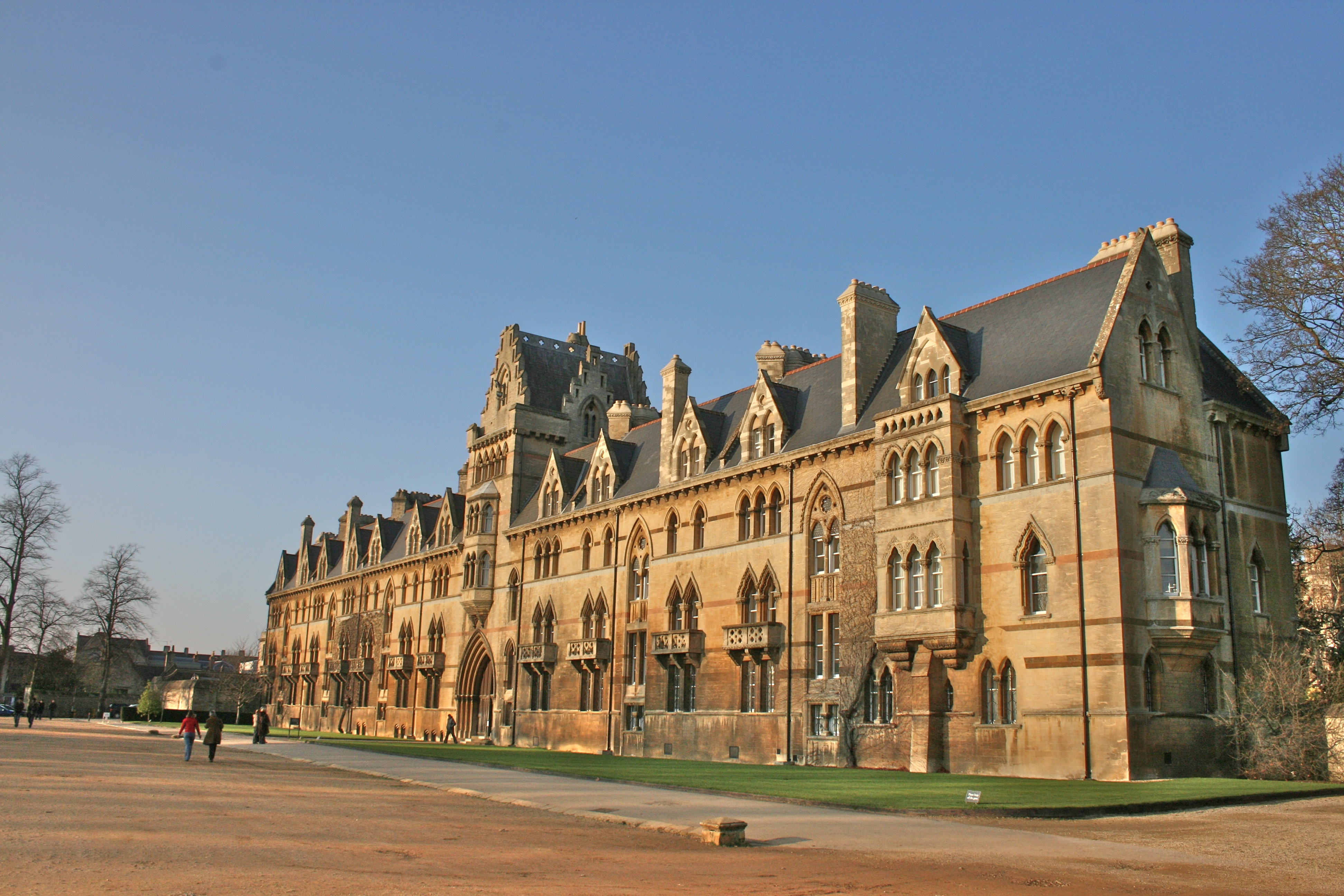 Meadow Building, Christ Church, Oxford, England, seen from the southeast